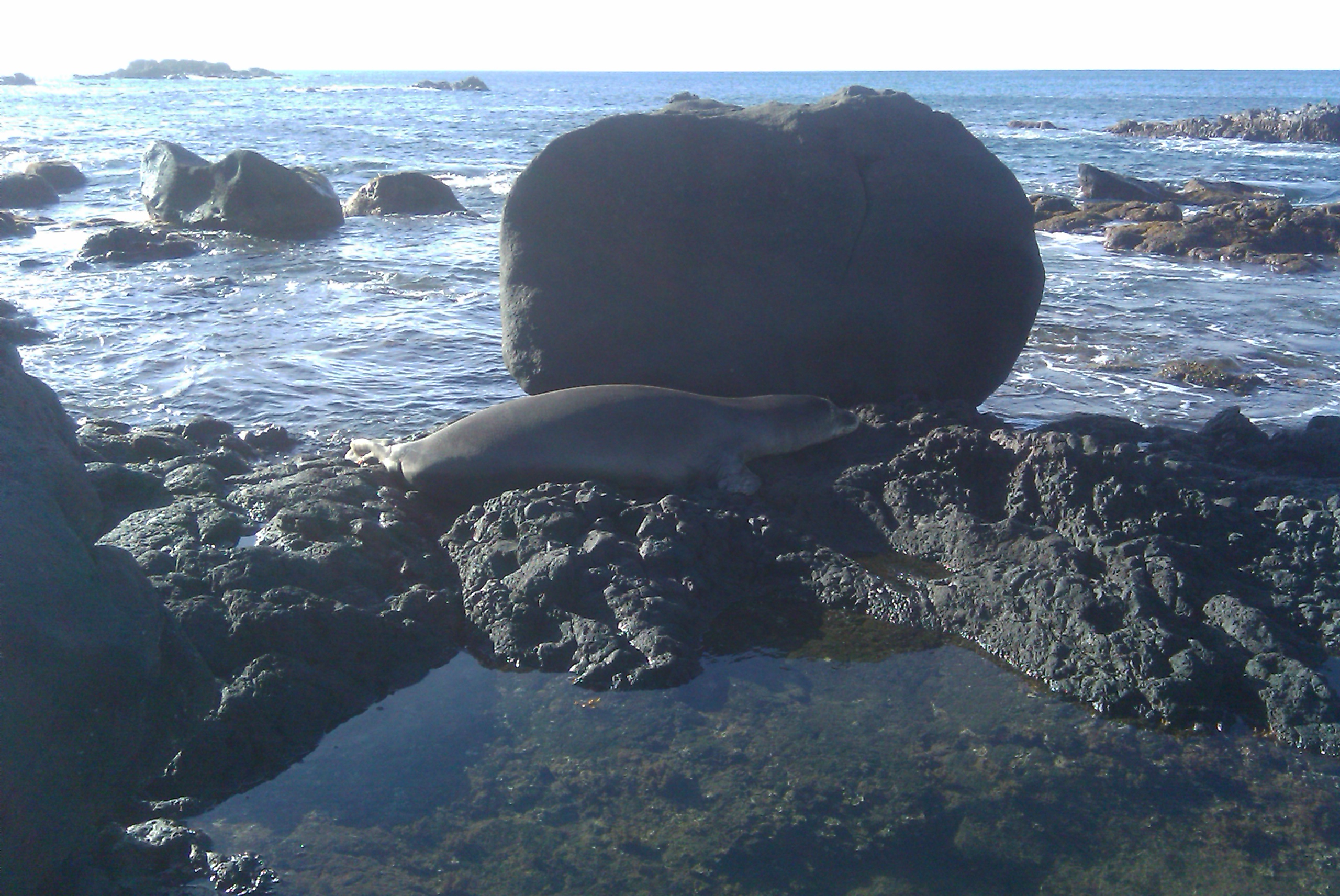 Photo of a napping Hawaiian monk seal taken by uploader at approximately 4:20 PM HST on October 26, 2011 near Waimea Bay Beach Park on the North Shore of Oahu, Hawaii. Relevant to the article on Hawaiian monk seals, to document their presence in the main Hawaiian islands.